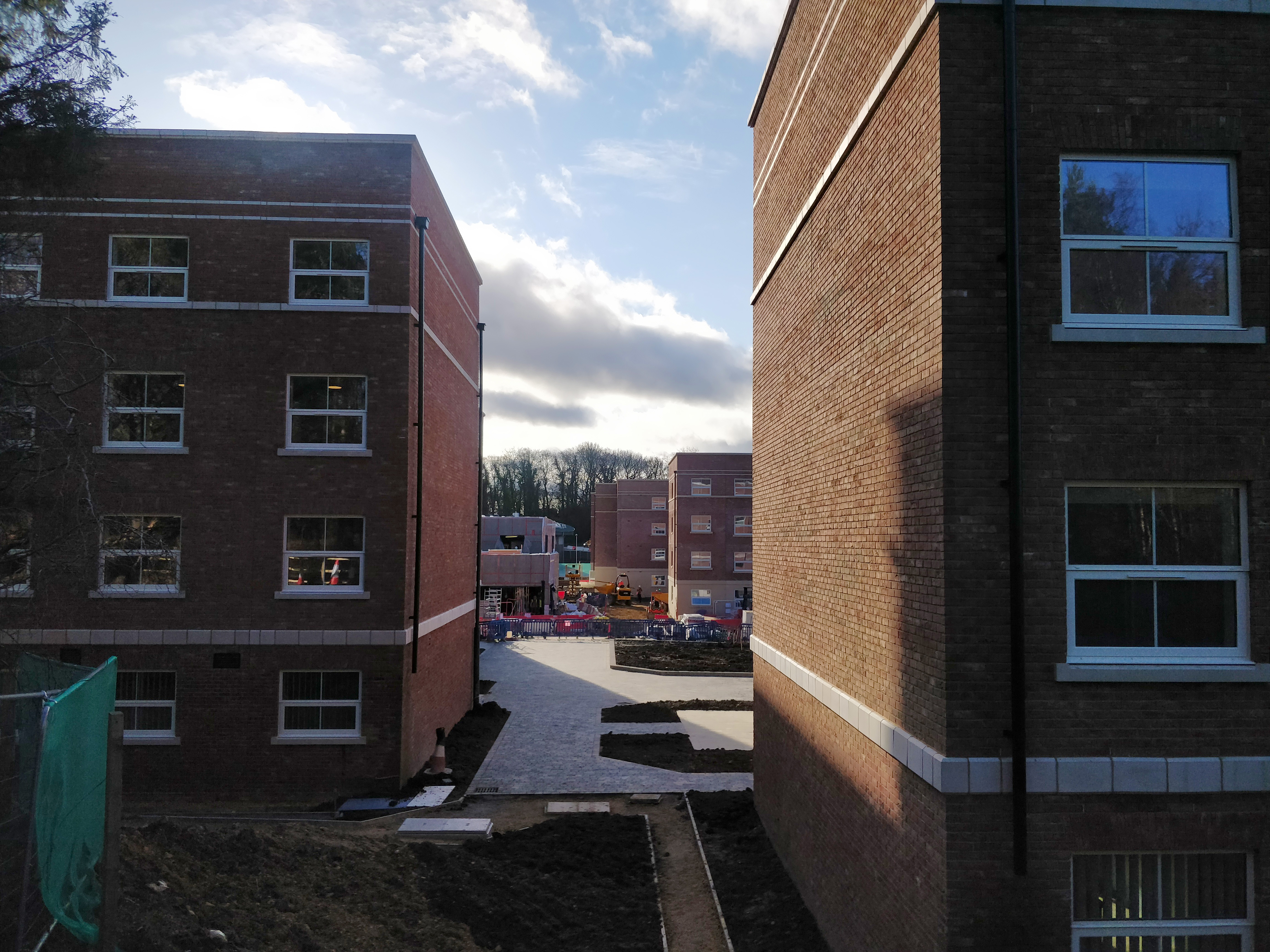 John Snow College, Durham, under construction in January 2020, from Millhill Lane